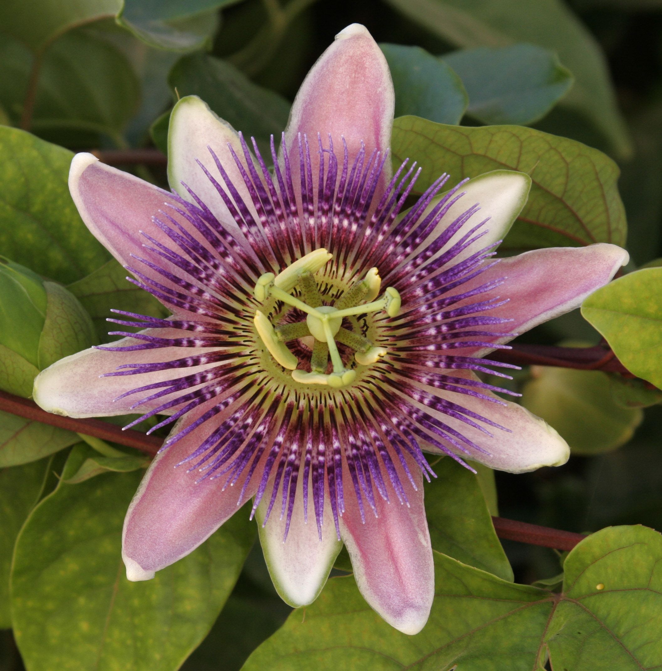 This is Passiflora × belotii. Photo taken in the Peninsula of Baja California, Mexico.